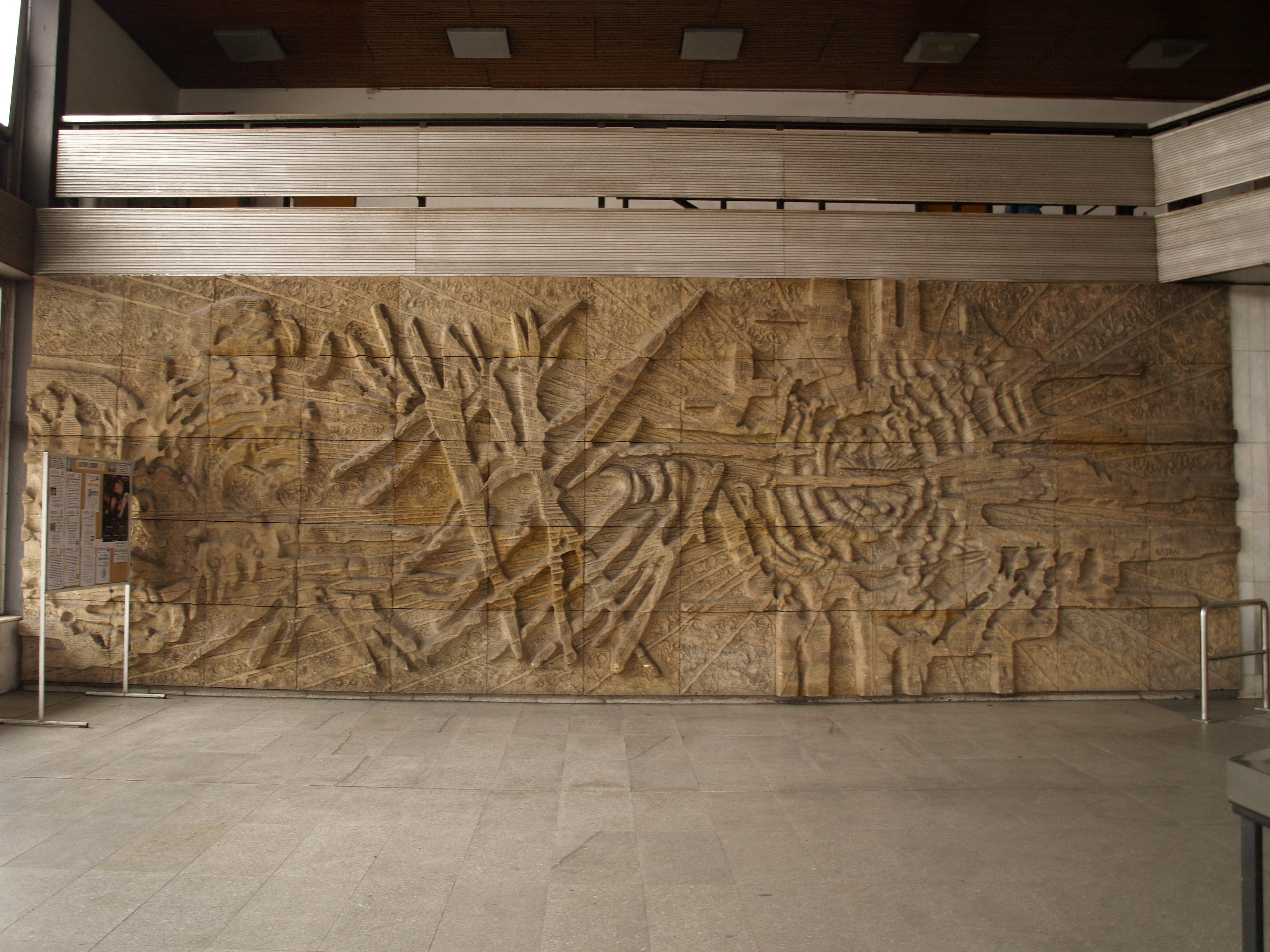 Sandstone relief located in the foyer of the Prague Metro station Kačerov, inaugurated 1974, sculptor Vladislav Gajda (1925–2010)